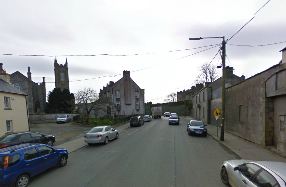 Main Street, Carnew